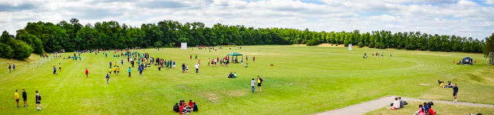 Walch Memorial Playing Fields